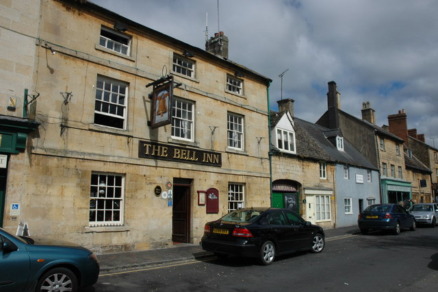 The Bell Inn, Moreton-in-Marsh The Bell Inn is situated on the main street in the centre of Moreton-in-Marsh.